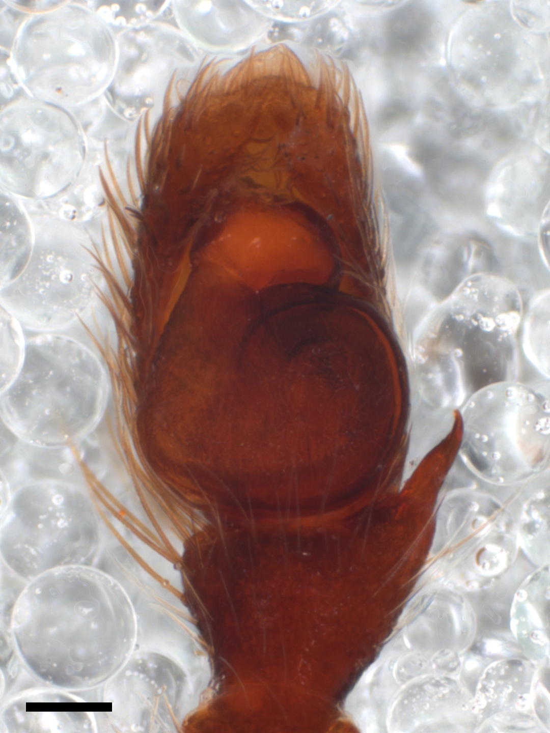 Pedipalp of male Zygoballus nervosus jumping spider from Conway County, Arkansas. Scale equals 0.1 mm.